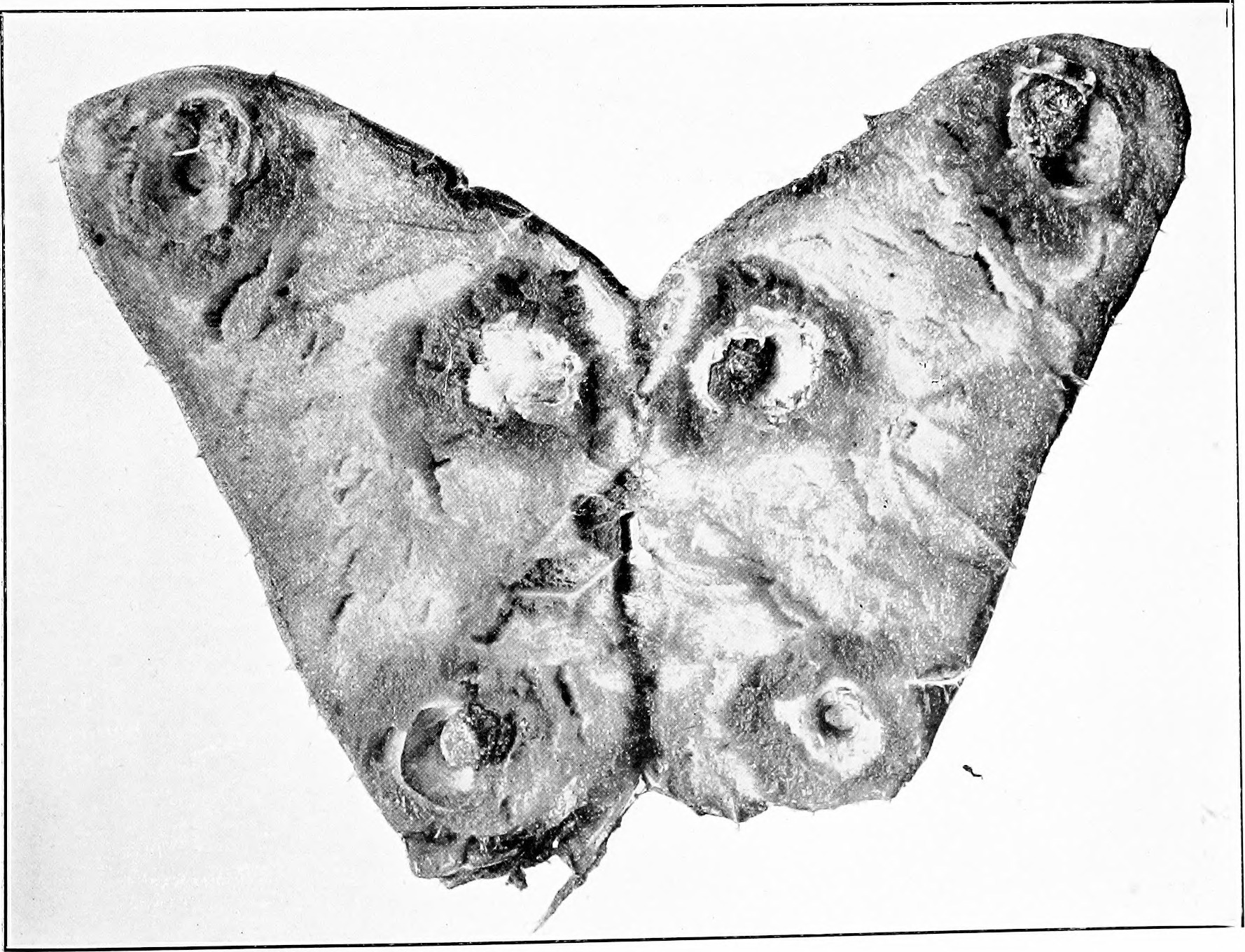 Title: Report of the Prickly-pear Travelling Commission. 1st November, 1912-30th April, 1914 Year: 1914 (1910s) Authors: Queensland. Prickly-pear Travelling Commission; Johnston, Thomas Harvey; Tryon, Henry Subjects: Prickly pears Publisher: Brisbane, A. J. Cumming, government printer Text Appearing Before Image: Photo., Bureau of Entomology, TJcyt. AtjrU-ulture, U.S.A. Fig, 41.—Part of a joint of an Opuntia showing three pupal " cells " of a Cactus Weevil, Gcr.'^fmc'keria turbi/ius. Text Appearing After Image: Photo., Bureau of Entomology, Deft. Agriculture, U.S.A. Fi^. 42.-The same (Fig. 41) cut open so as to show the " cell " cavities with their pupa-cases within them.